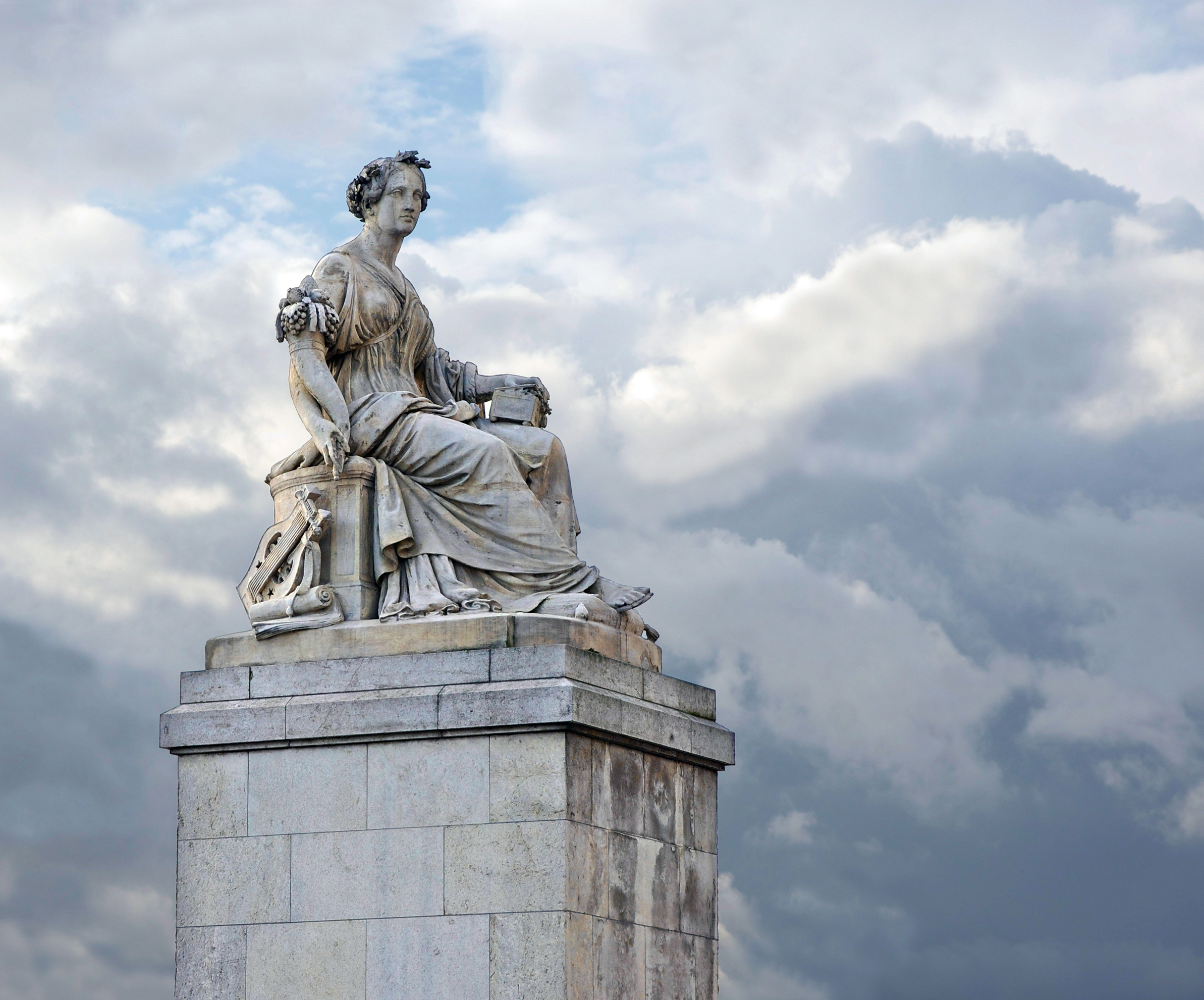 Abundantia, by Louis Petitot, 1846, Pont du Carrousel, Paris